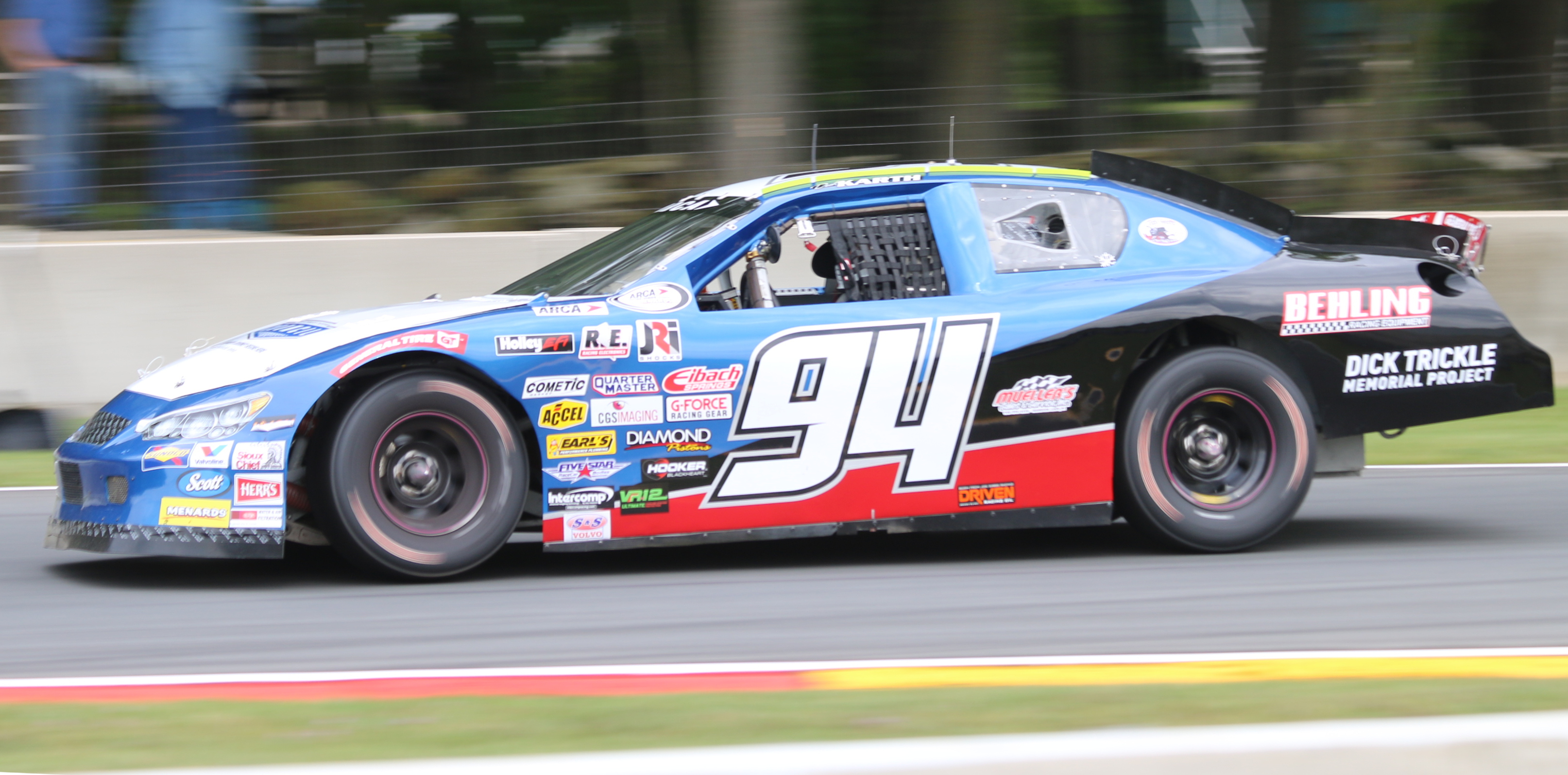 The ARCA Racing Series car of Dick Karth at the 2017 Road America 100 race.